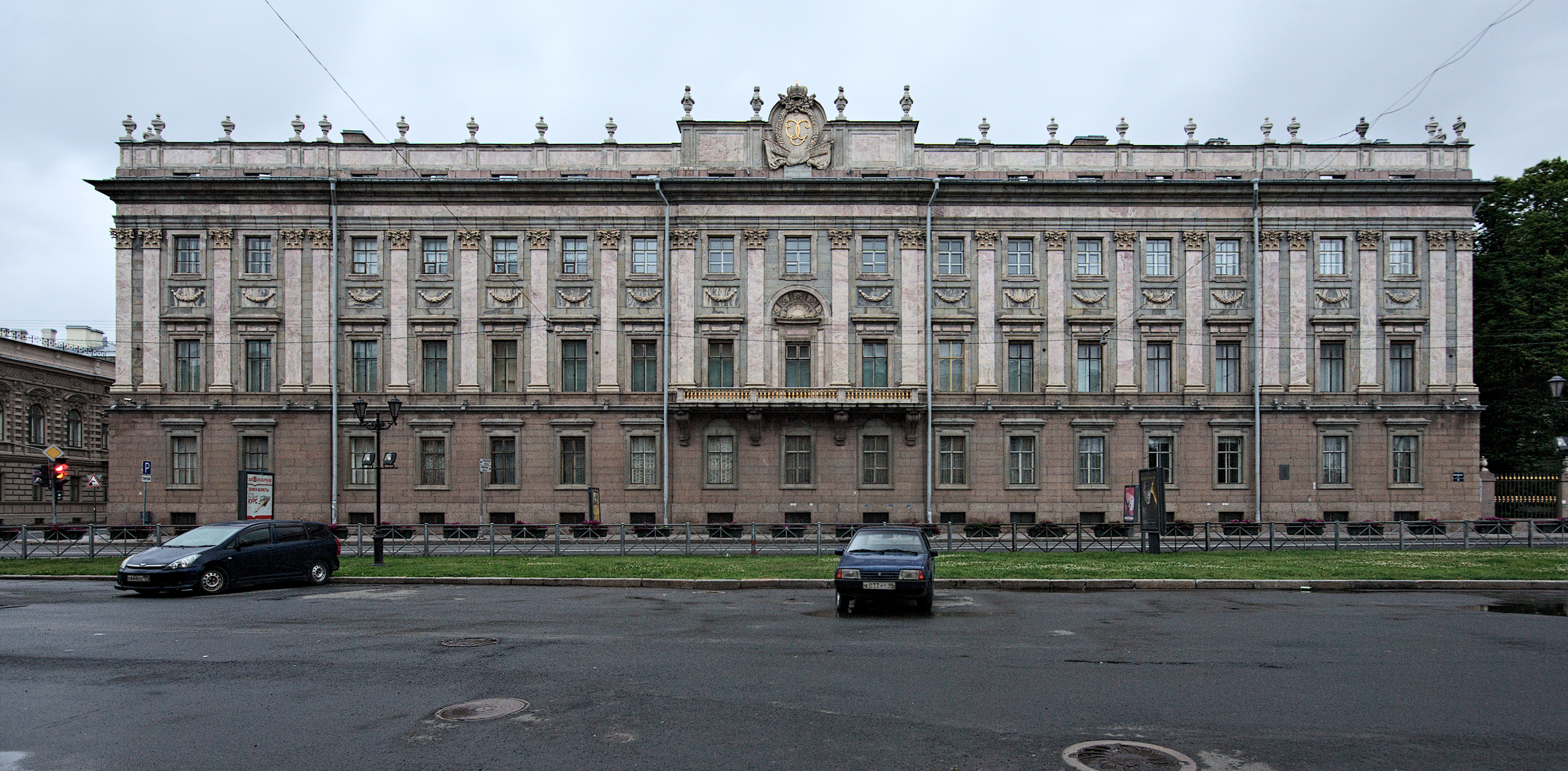 Marible Palace (St. Petersburg) at night before lights turns up. View from Millonnaya St.